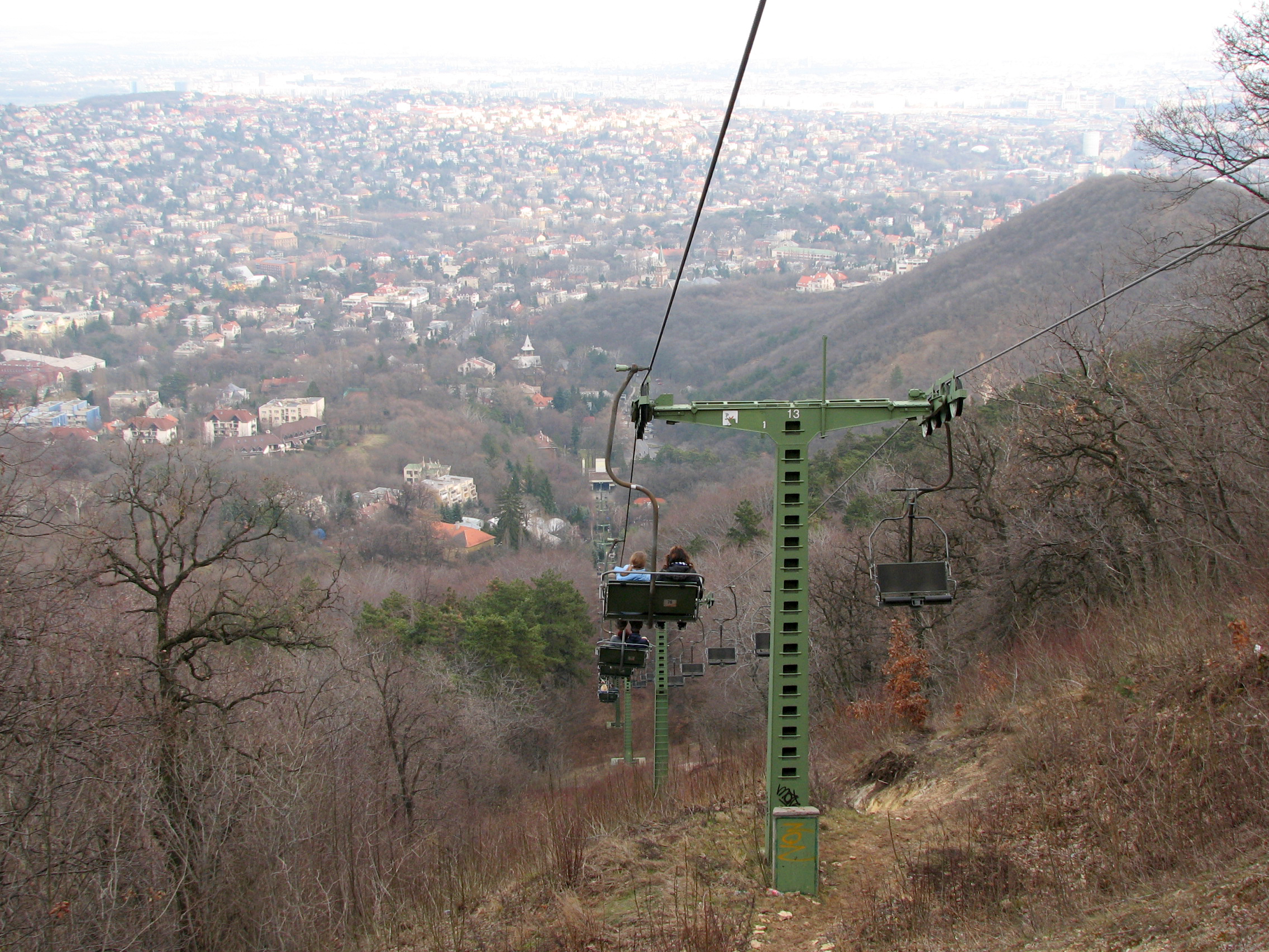 Chairlift (Libegő) in Budapest